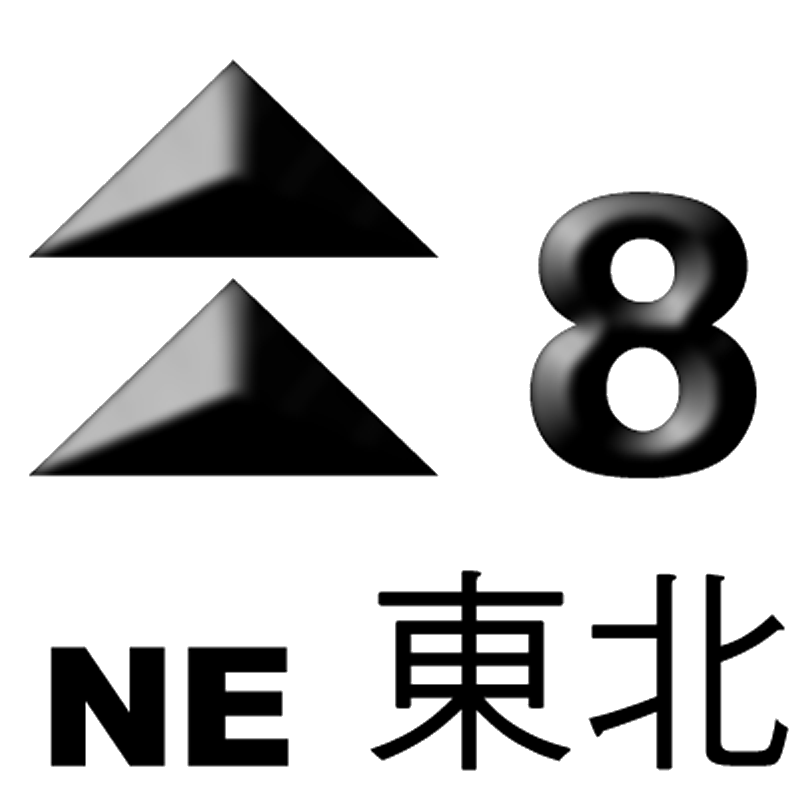 NO. 8 NORTHEAST GALE OR STORM SIGNAL